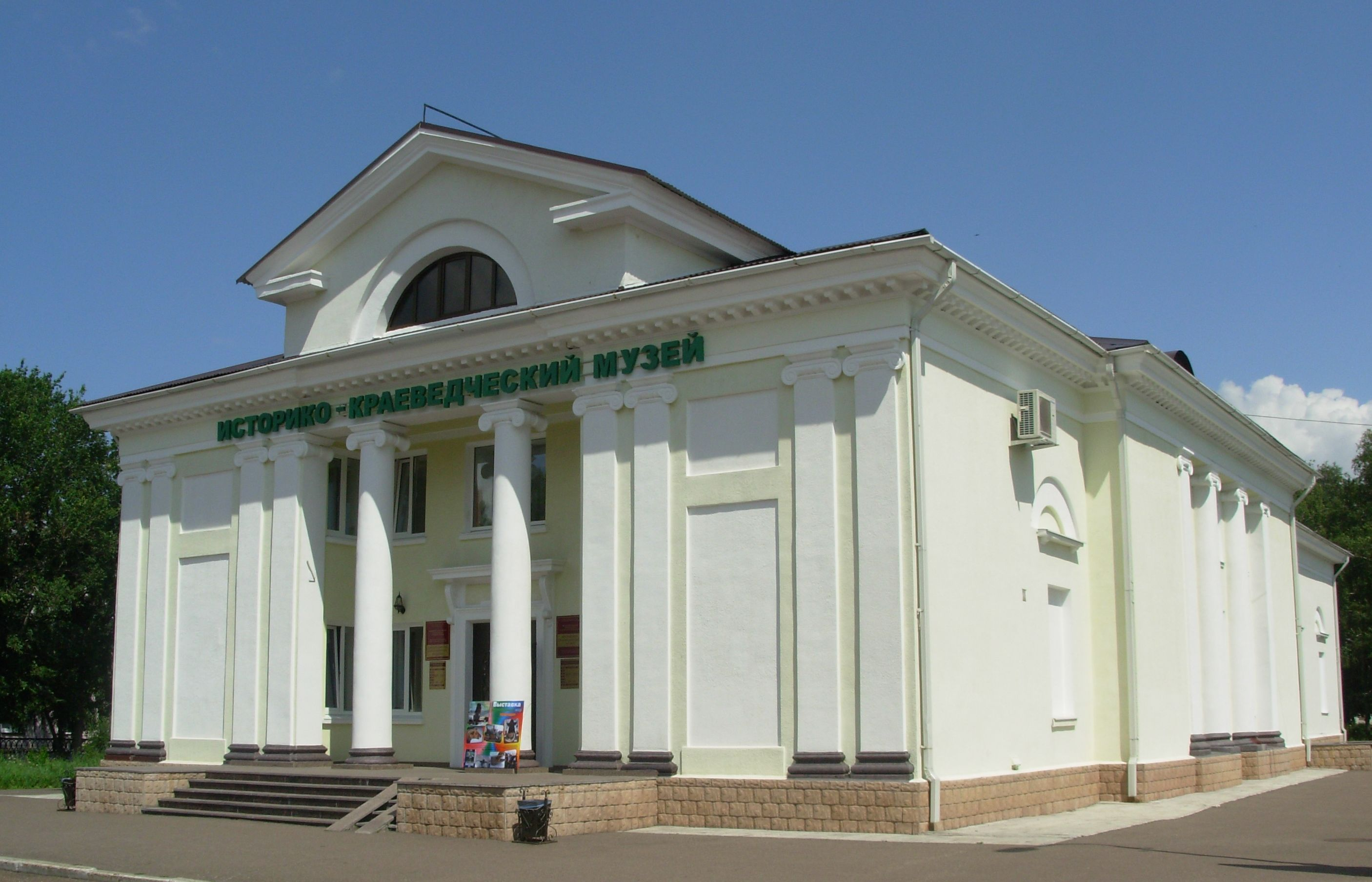 street